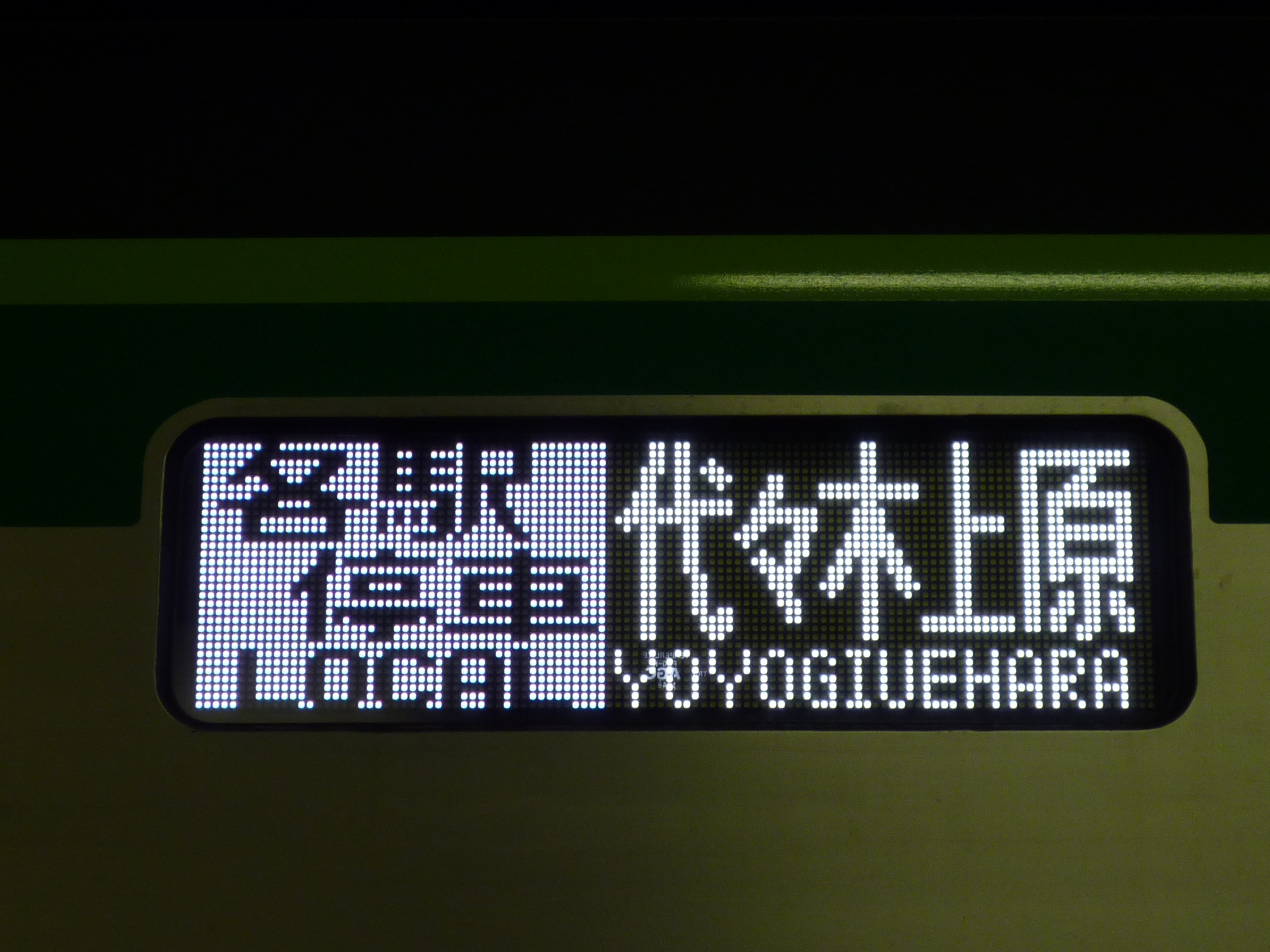 LED destination indicator on a Tokyo Metro 16000 series EMU, at Abiko Station